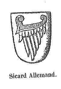 Sicard Allemand